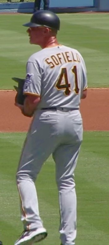 20160813 Dodgers vs Pirates